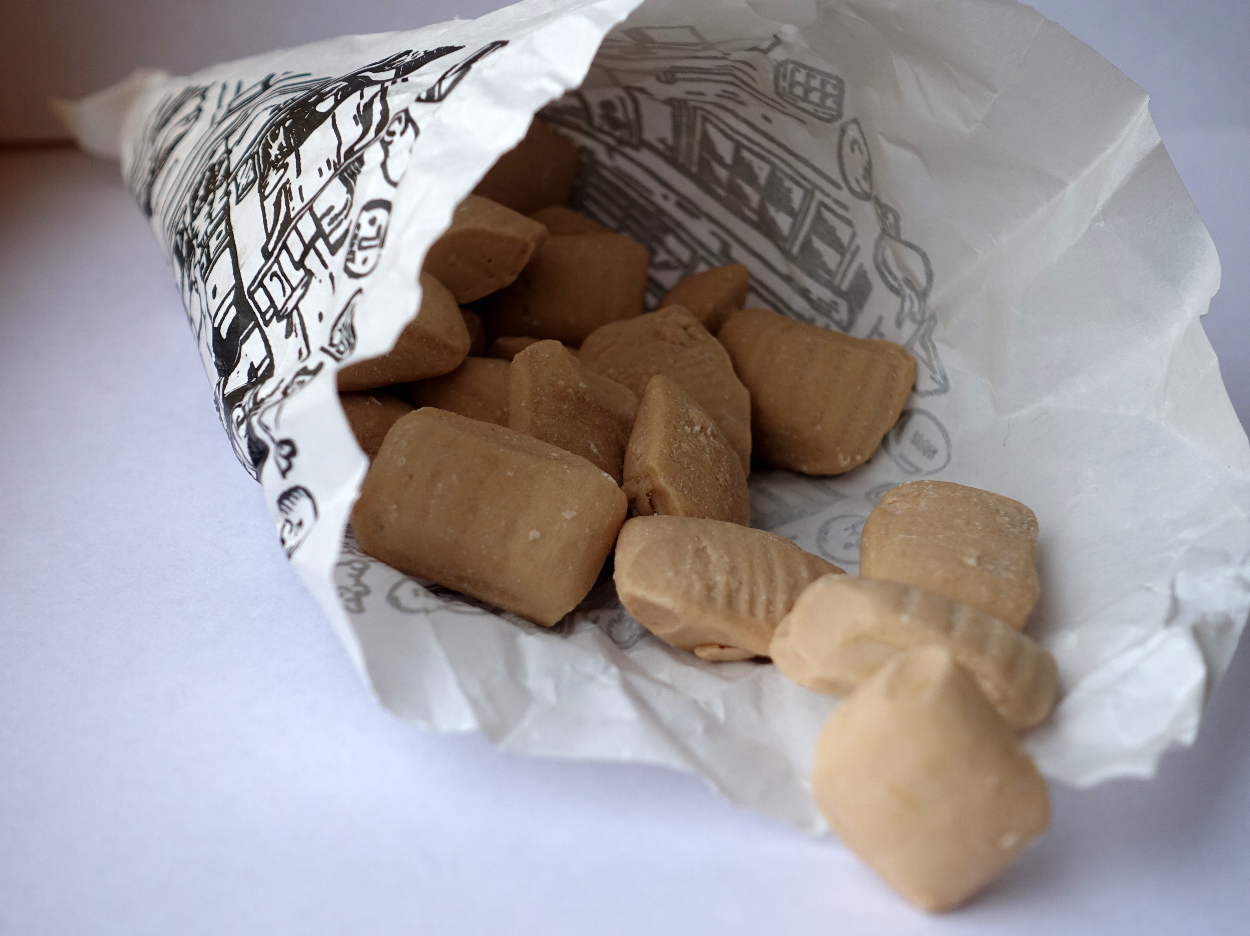 Polkabrokken: Dutch candy